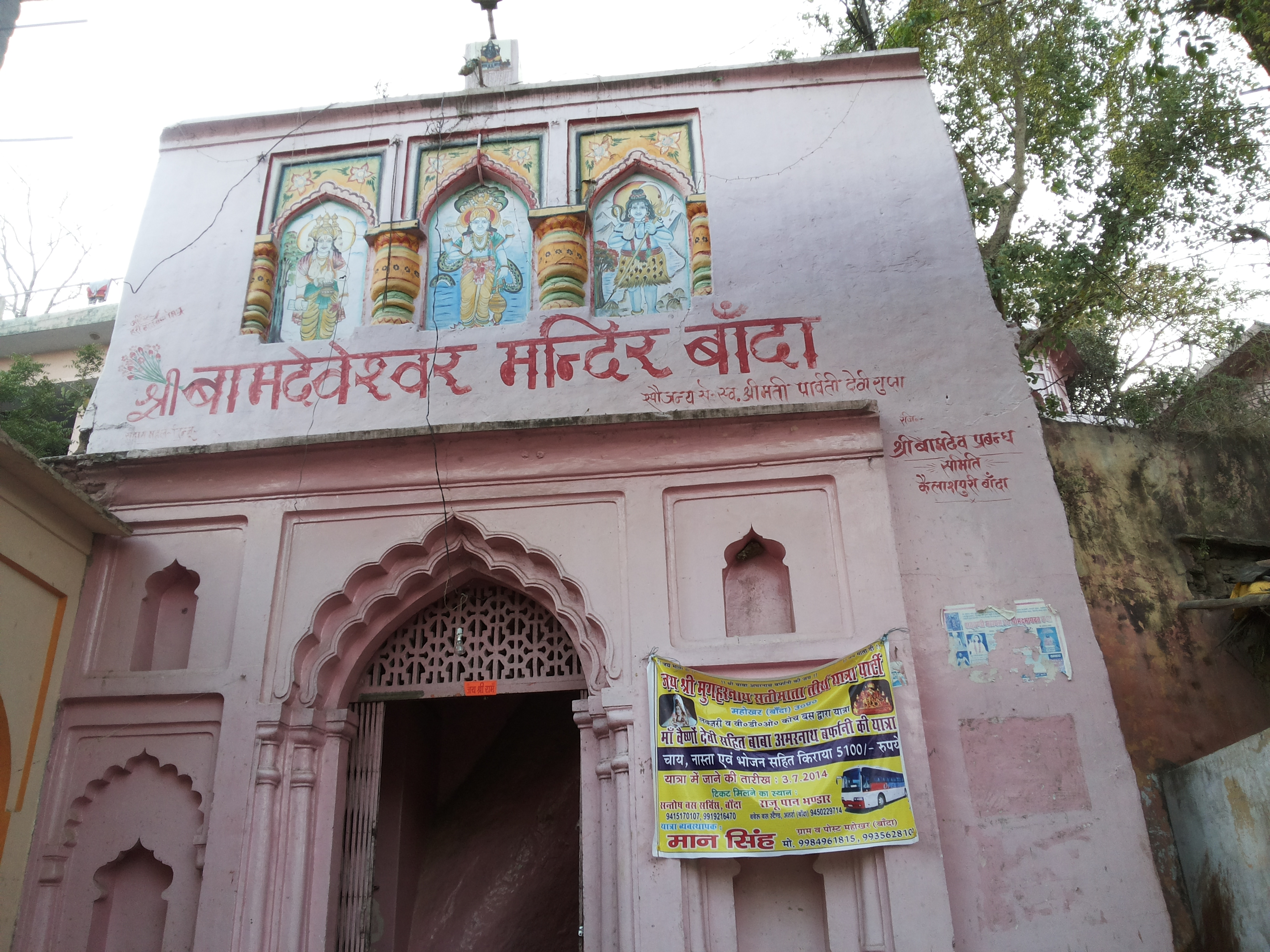 The temple is named after Bamdeo Rishi, a sage mentioned in Hindu mythology. The temple is located in Banda city, Uttar Pradesh.